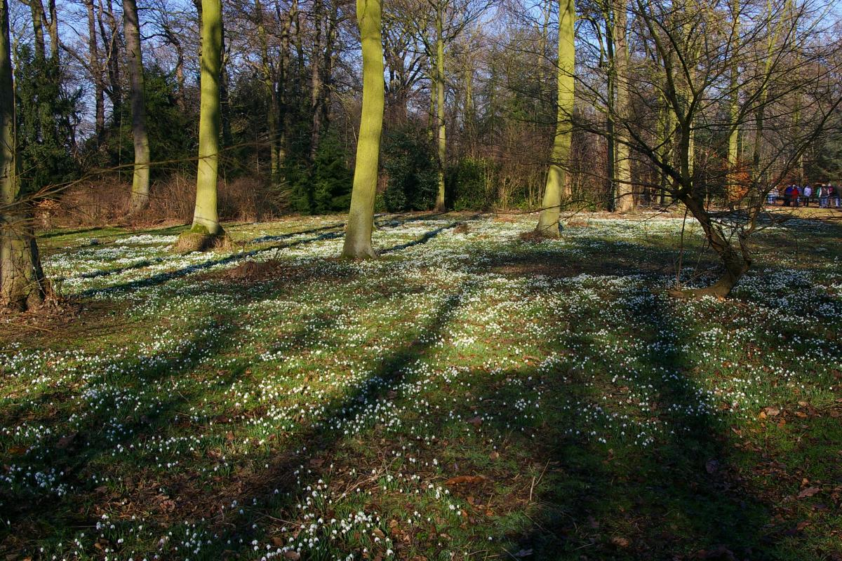 Snowdrops at Hodsock Priory, Notts, UK